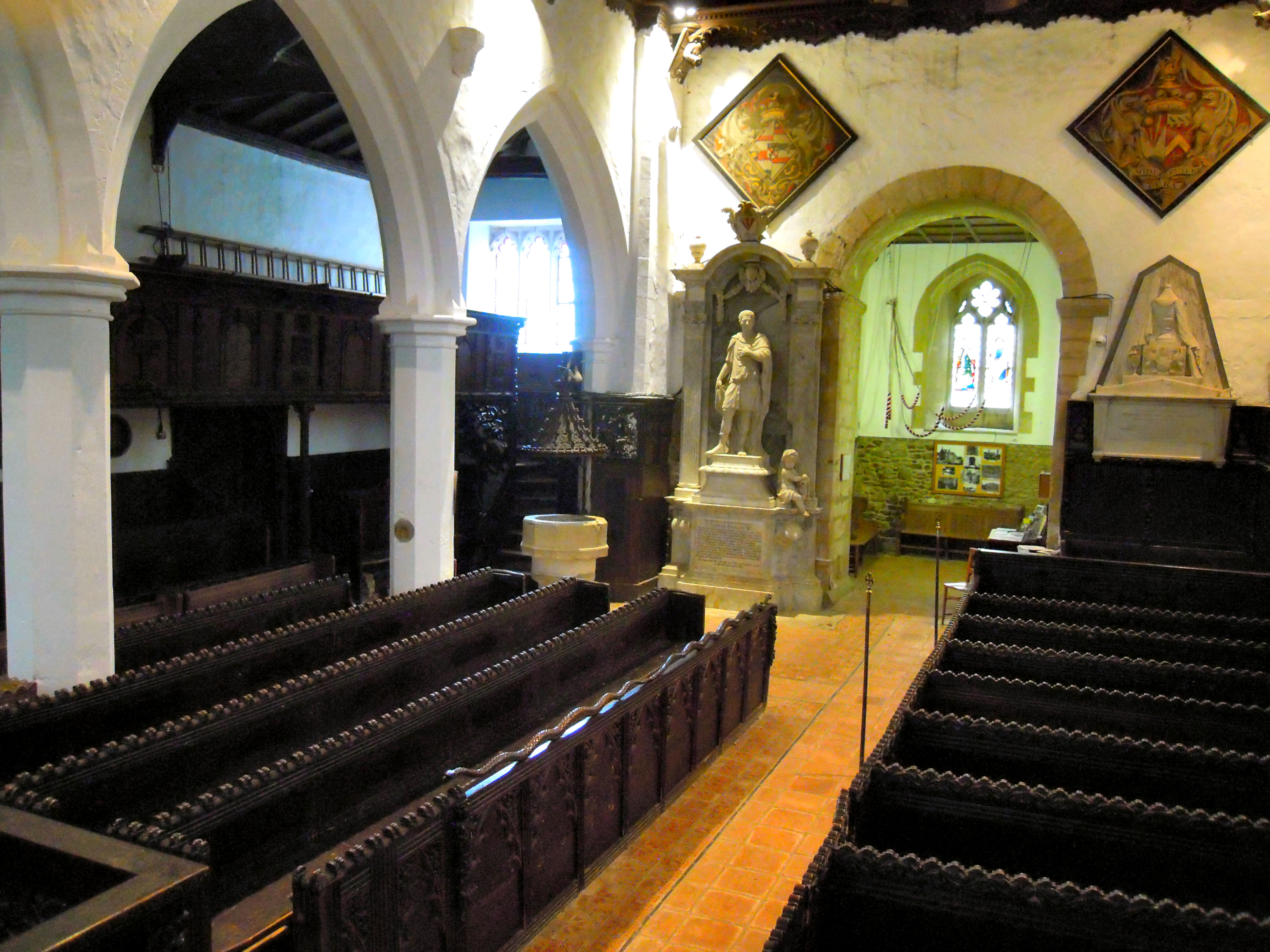 View of the nave in the Church of St Leonard in Old Warden in Bedfordshire